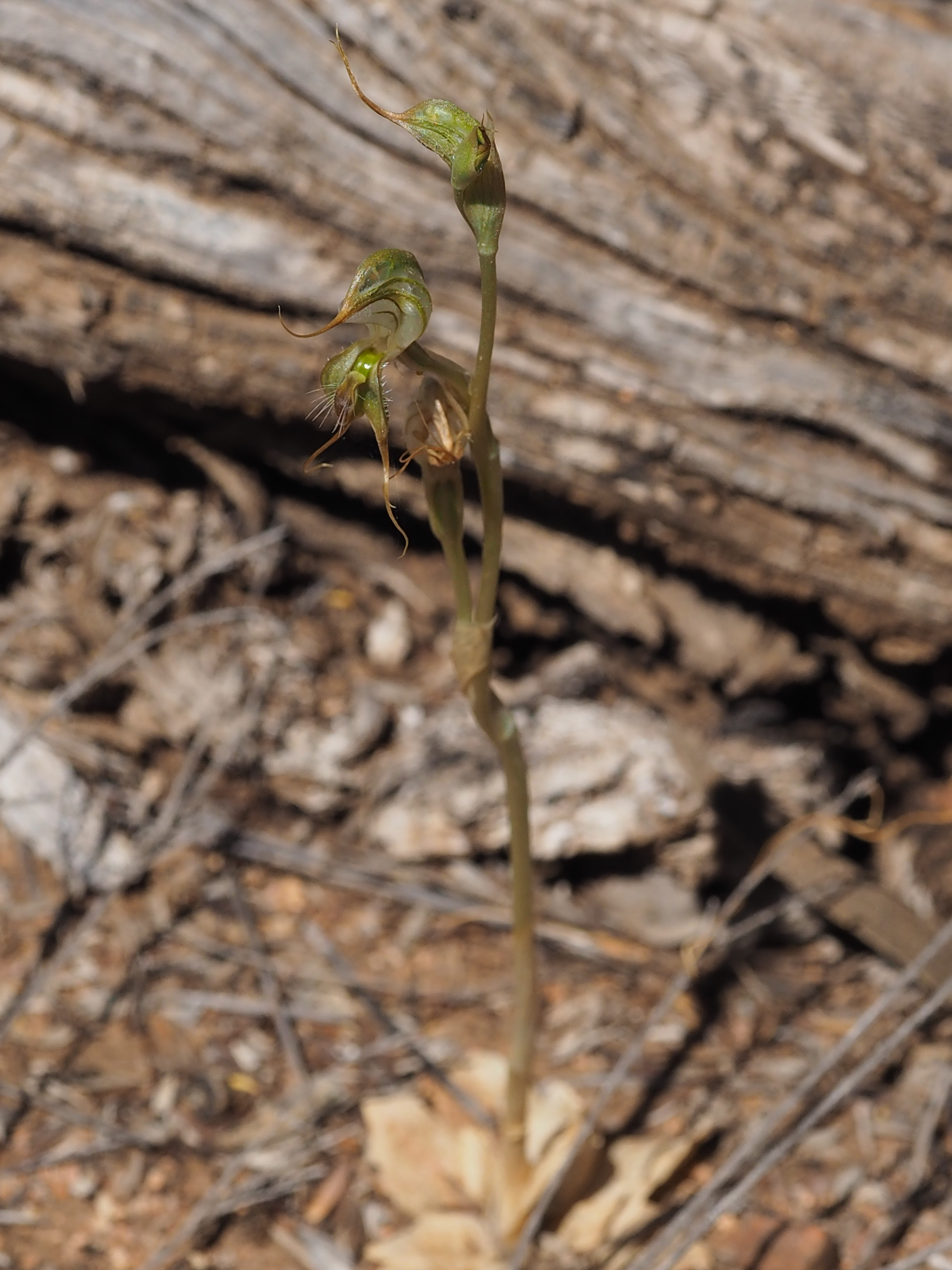 Pterostylis roensis in the Kalgarin Nature Reserve, near the Kondinin-Hyden Road